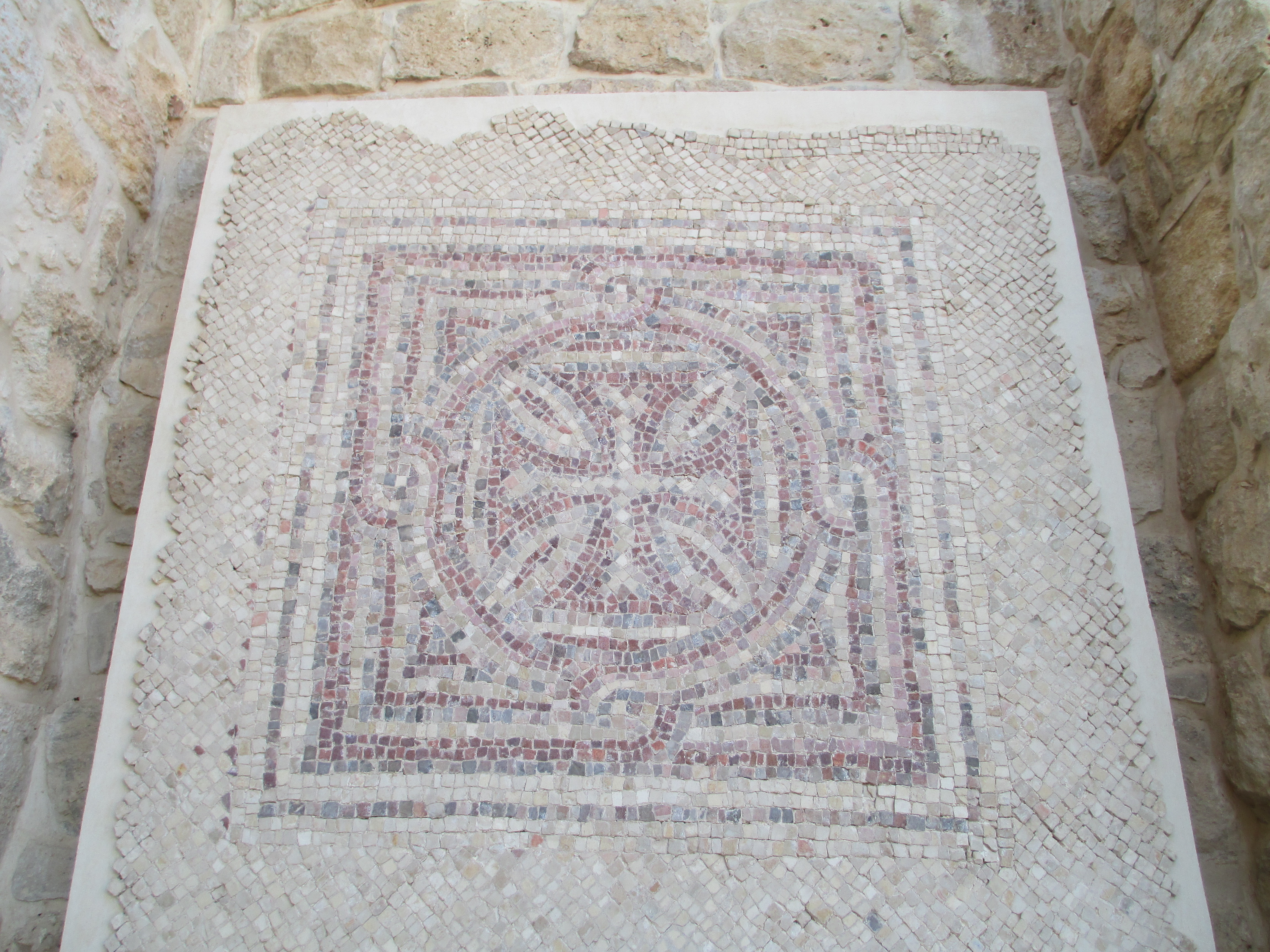 Good Samaritan Museum